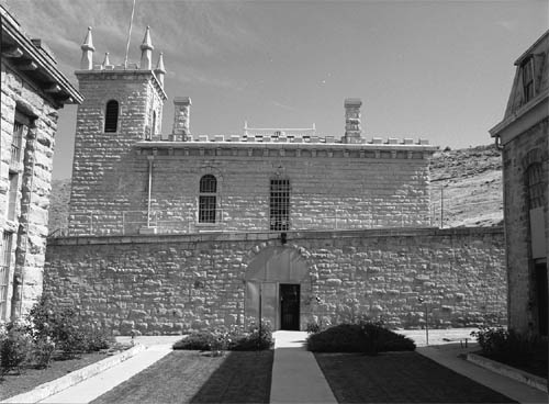 Old Idaho State Penitentiary entrance — Boise County, Idaho.